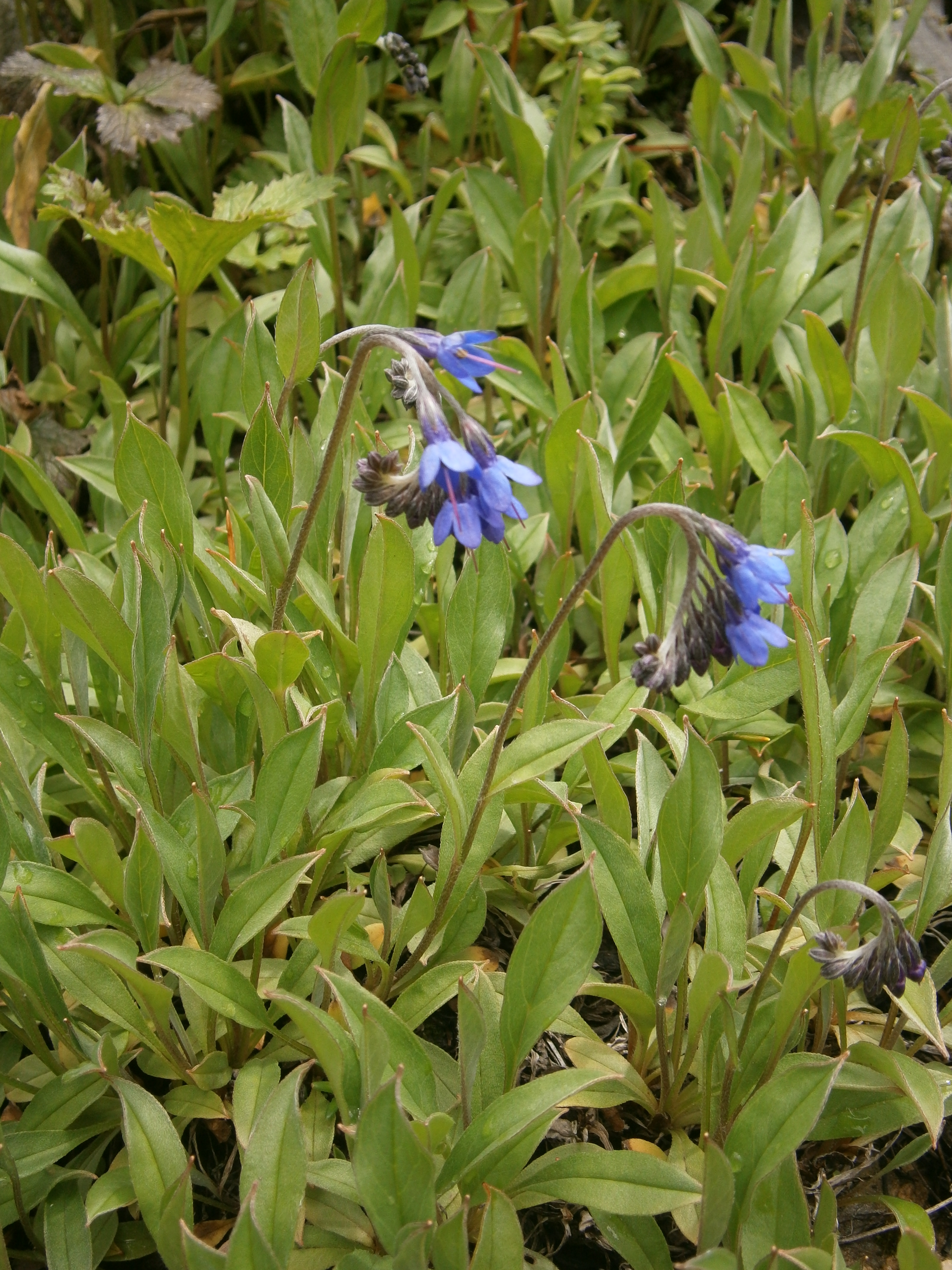 Mertensia primuloides in the Jardin Botanique Alpin du Lautaret